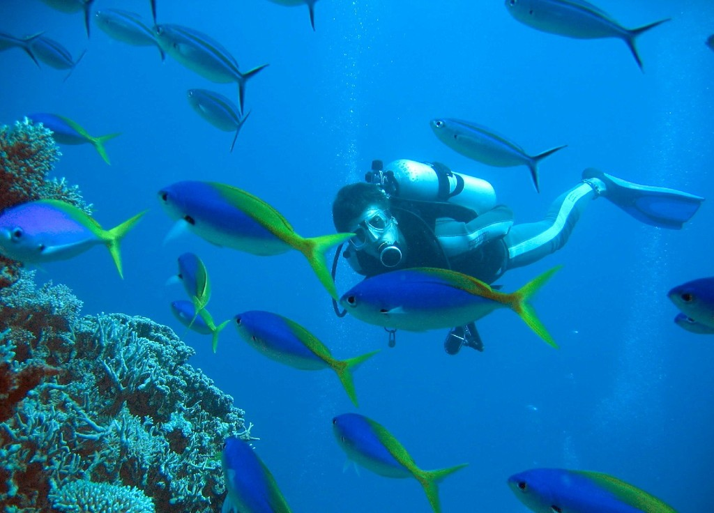 Diver surrounded by Yellow and Blueback Fusiliers (Caesio teres, with yellow tails) and Blue-and-gold Fusiliers (Caesio caerulaurea, with dark tails). Pixie Garden, Ribbon Reefs, Great Barrier Reef, Aus.176725950